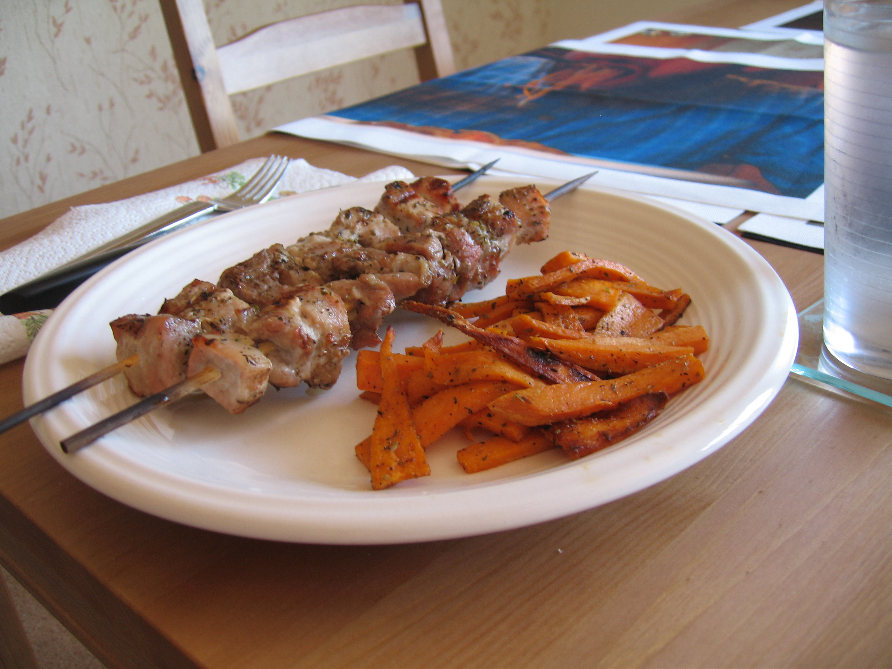 Greek souvlaki and potato fries